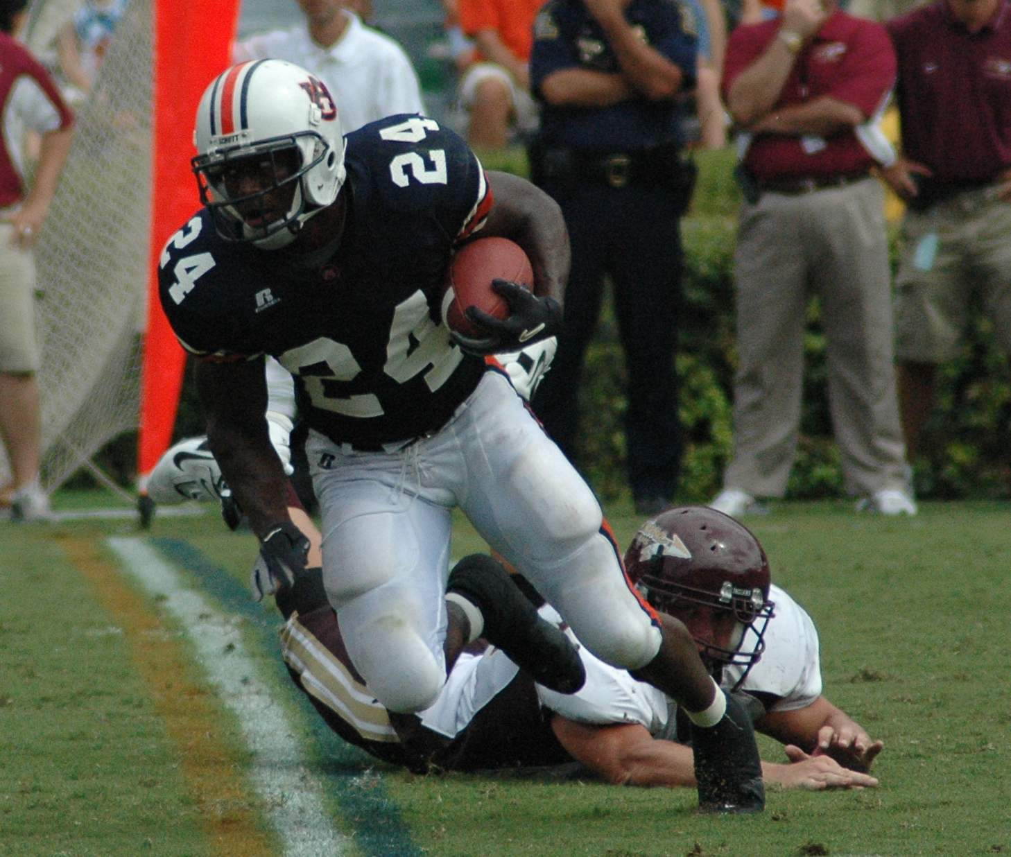 Description: American football running back Carnell Williams evades a would-be tackler at a home game at Auburn University. Source: self-made Photographer: J.Glover with a Nikon D70 on September 4, 2004.